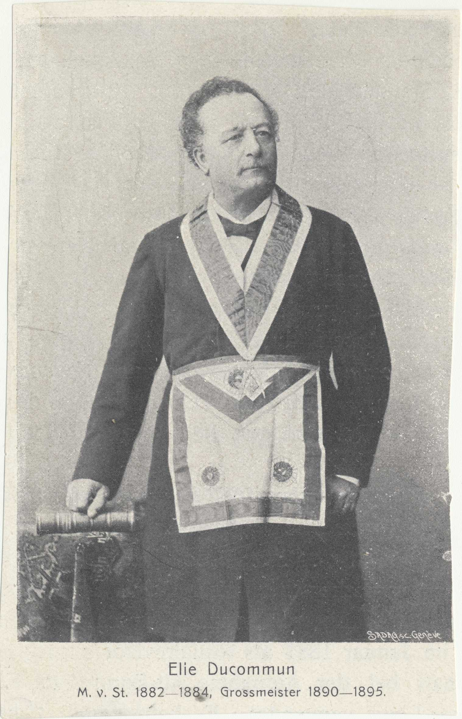 Elie Ducommon as Freemason